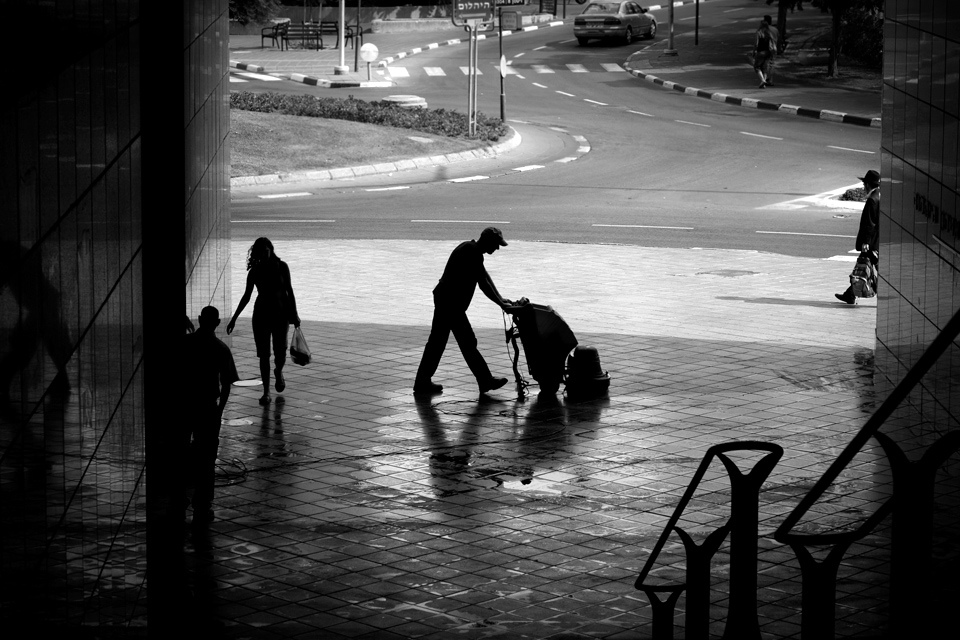 A janitor cleaning up the sidewalk.